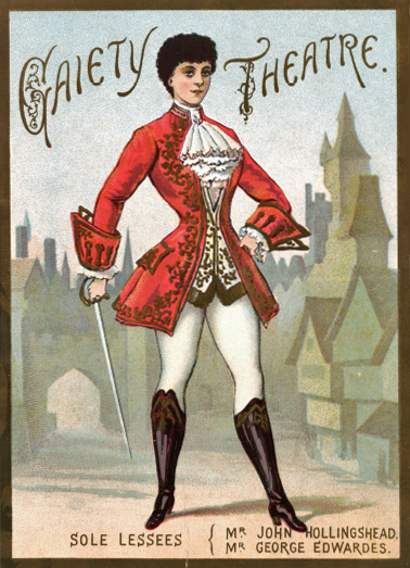 Nellie Farren as Little Jack Sheppard. Printed in and scanned from original 1885 theatre programme